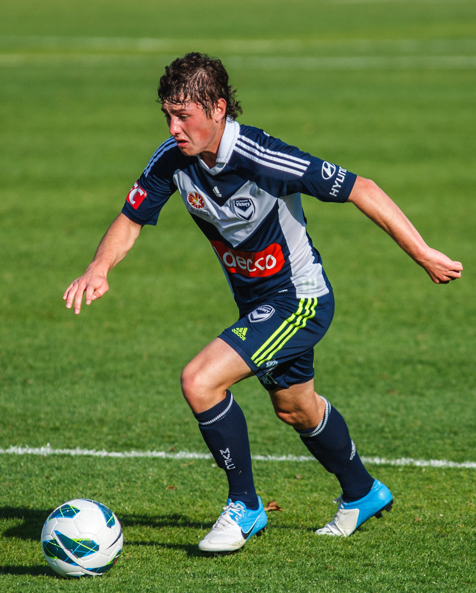 Marco Rojas playing in a pre-season game between the Central Coast Mariners and Melbourne Victory on 16/09/2012.